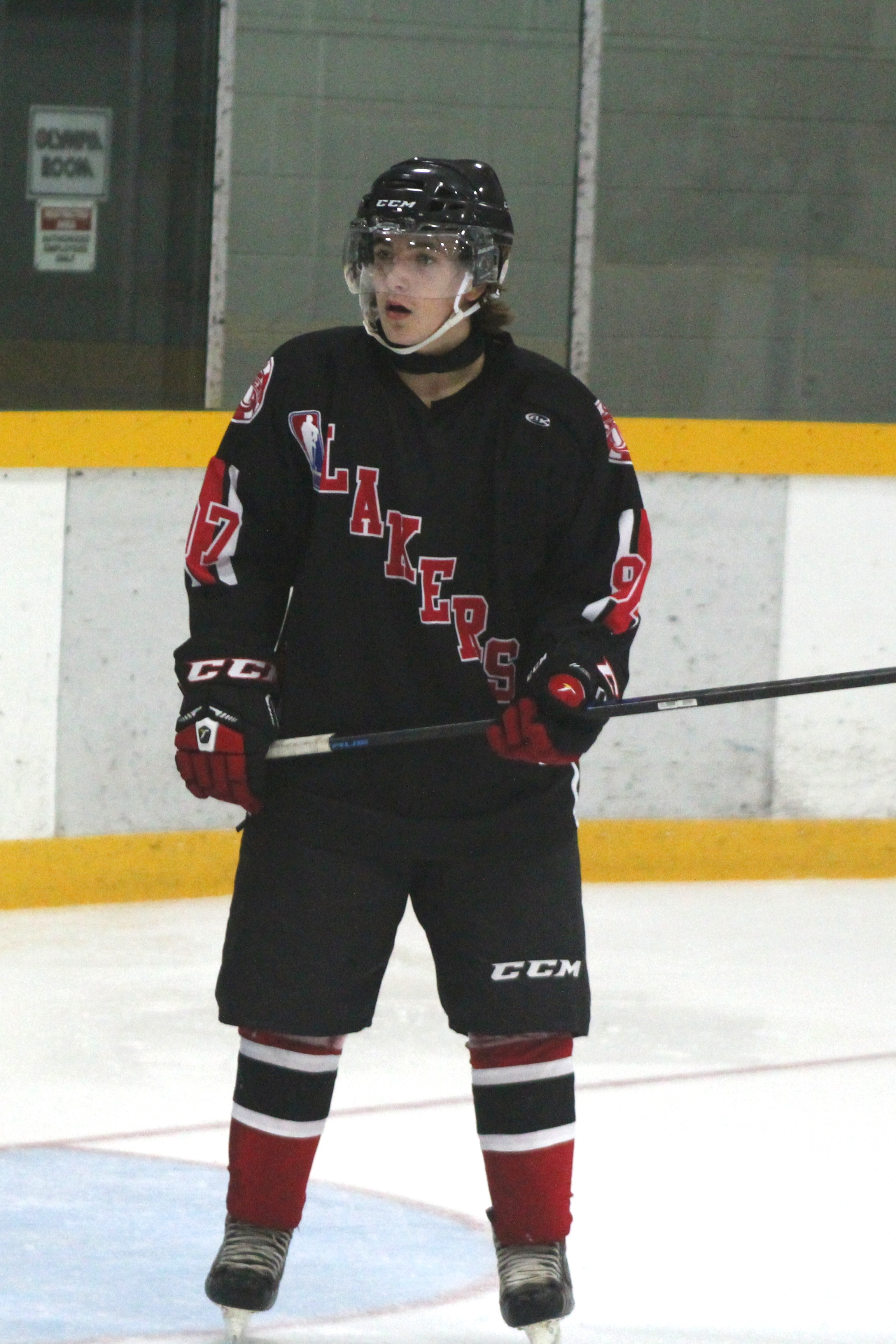 These images of GMHL Action action during the 2015-16 season are taken by Devan Mighton.